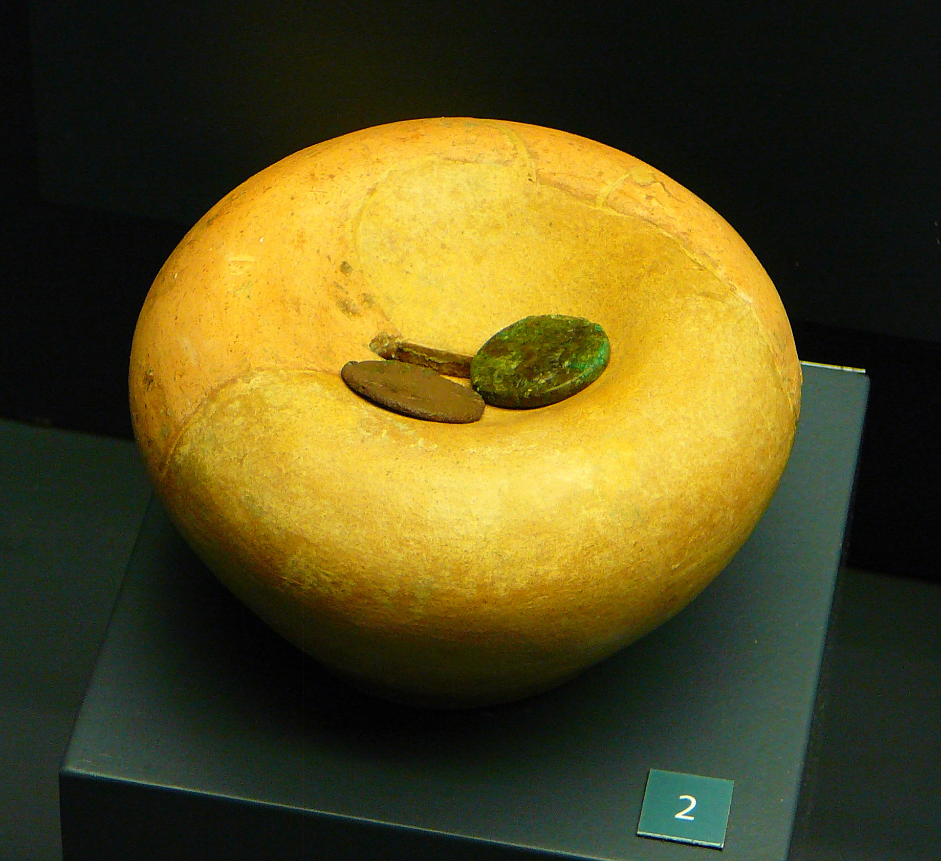 Roman clay money box from the 2nd or 3rd century AD; found at Pfaffenhofen, Rosenheim district, Germany; on display at Archäologische Staatssammlung, München